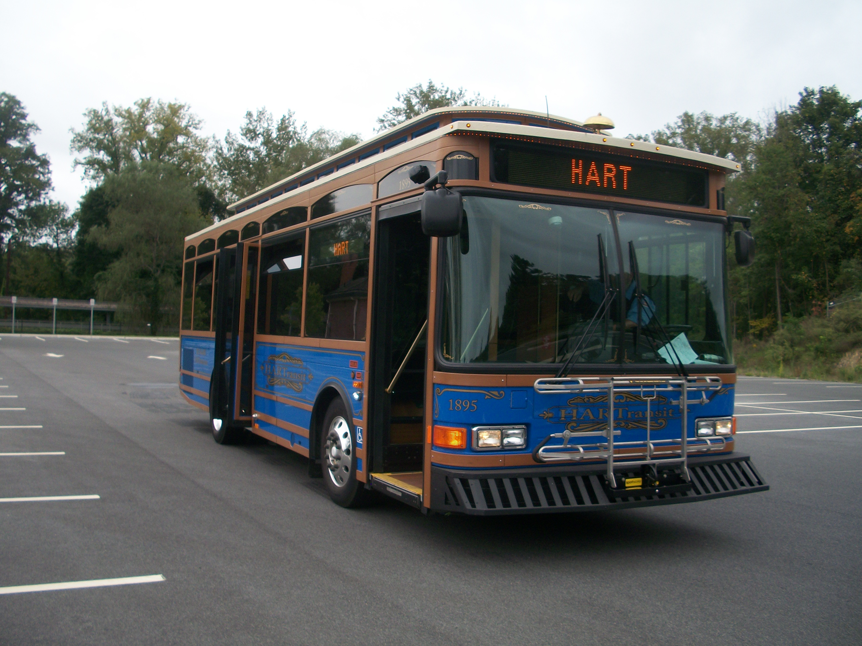 HARTransit 1895 at Bethel Train Station